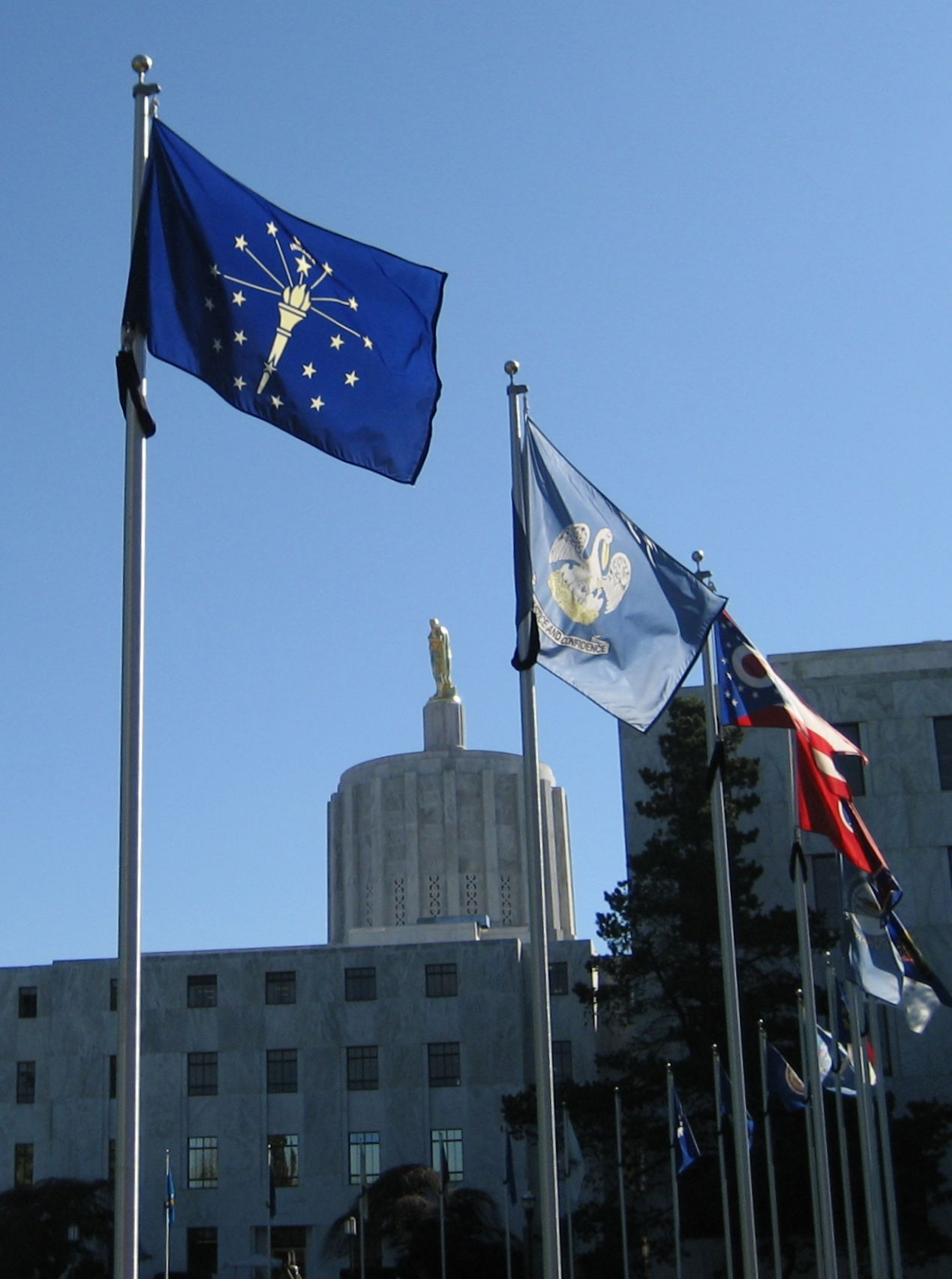 The Oregon State Capitol Walk of Flags on west end of capitol building. In the foreground, left to right: Indiana, Louisiana, Ohio.